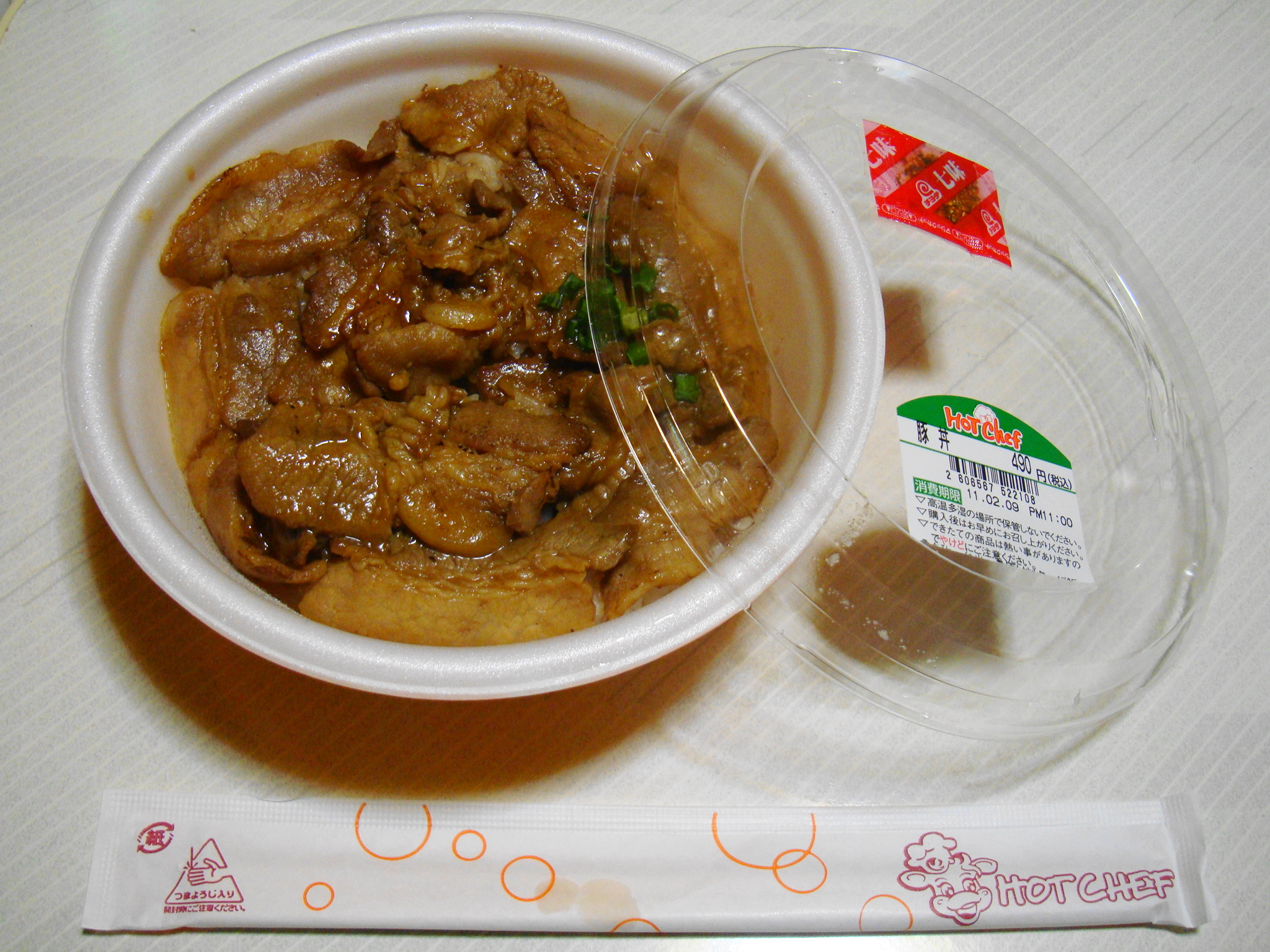 Seicomart "Butadon Bento"